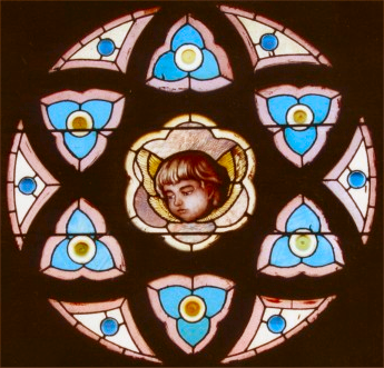 Photograph of cherub rose window at Old St. Peter's, 3rd and Lincoln Streets, The Dalles, Oregon, designed and installed by Povey Brothers' Studio Portland, Oregon. Cropped and color saturation adjusted to compensate for fading of original 35mm slide. From the collection of Dr. John S. Gilhousen (1910-1984) donated with full rights by the estate to the Gilhousen Family Association, who has released them without reservation.